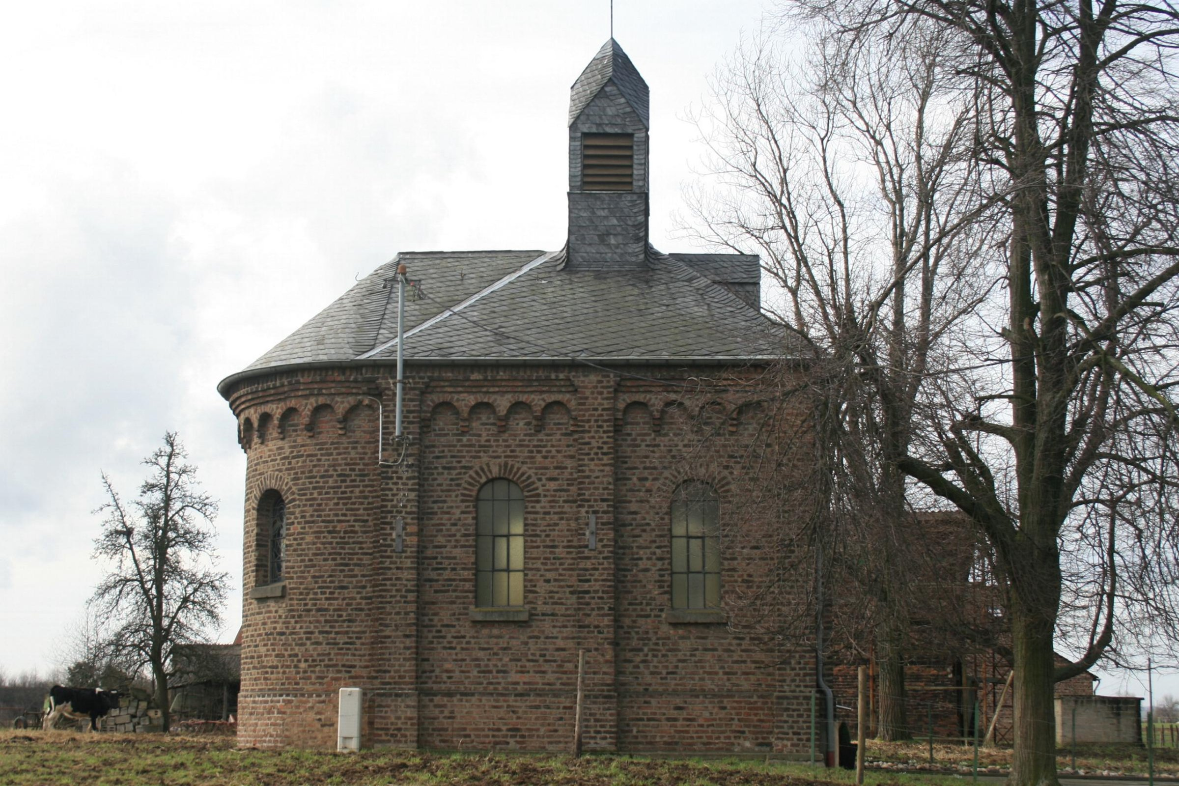 Cultural heritage monument No. 38 in Inden